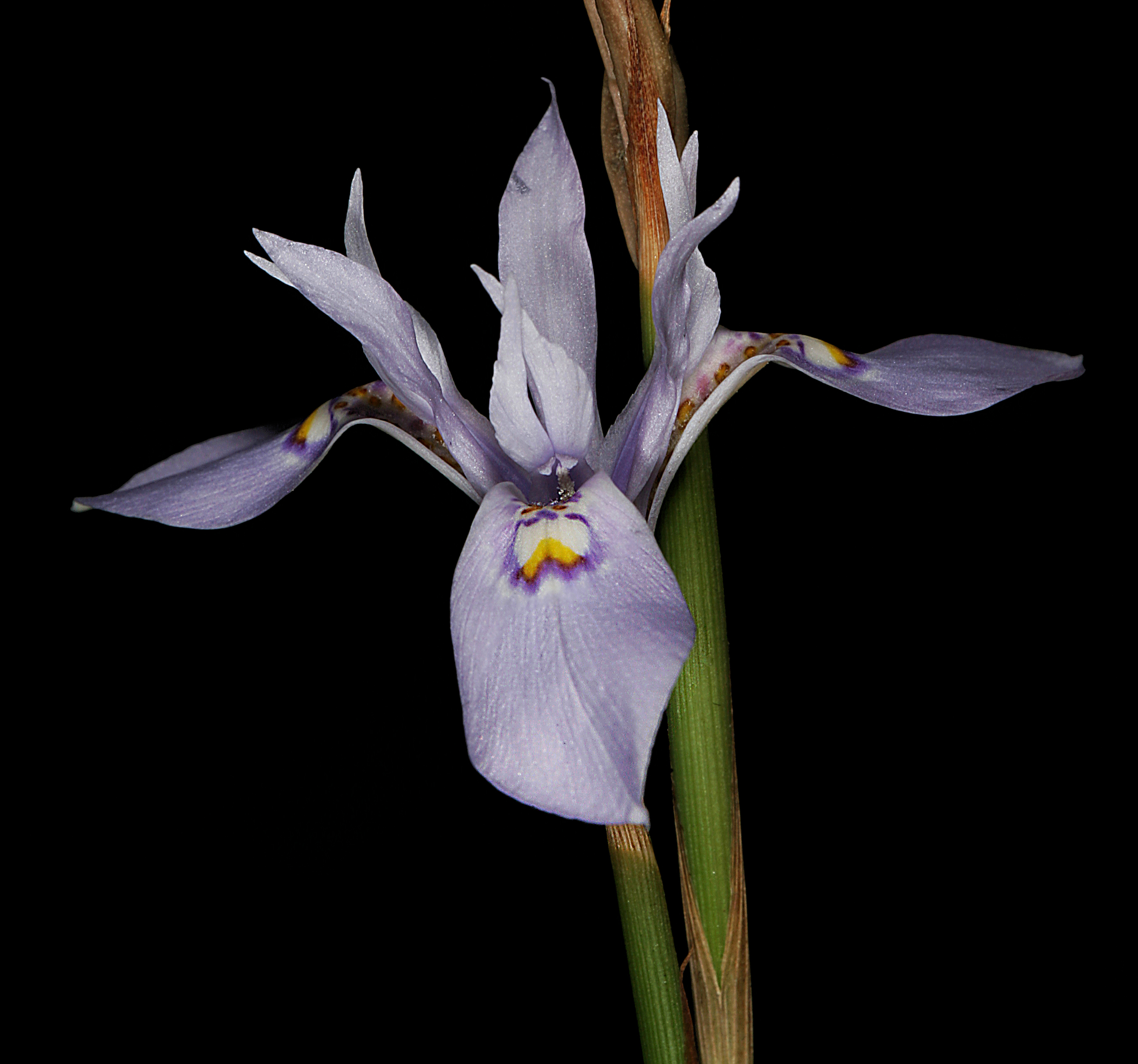 Moraea elliotii, flower; Pondoland, Sikhombe Forest to Mtentu Camp, Eastern Cape, South Africa